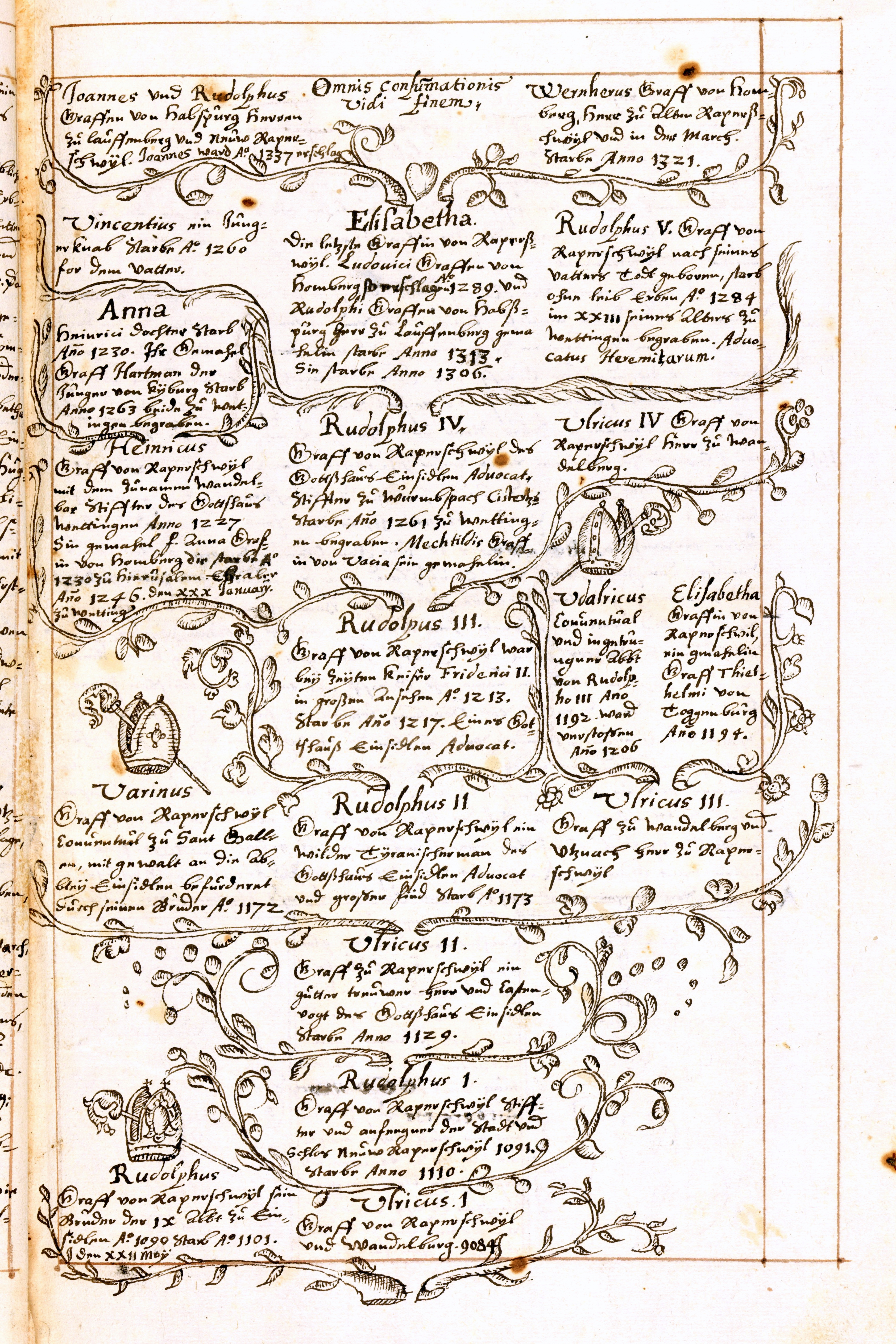 House of Rapperswil : Library / Collection: Kantonsbibliothek Thurgau; Settlement, shelfmark: Y 115; Manuscript Title: Heinrich Murer: B[eatae] Mariae Virg[inis] Marisstella, alias Wettingen; Caption: Paper 37 ff. 1.4 x 20.8 cm Ittingen, Carthusian Monastery after 1631; Language: Latin, German; Manuscript Summary: Chronicle of the Cloister of Wettingen by Heinrich Murer (1588-1638, member of the Carthusian convent at Ittingen beginning 1614). (lug); Standard description: Beschreibung von Marianne Luginbühl, Kantonsbibliothek Thurgau, Frauenfeld 2011.; How to quote: Frauenfeld, Kantonsbibliothek Thurgau, Y 115: Heinrich Murer: B[eatae] Mariae Virg[inis] Marisstella, alias Wettingen ( Online Since: 12/19/2011